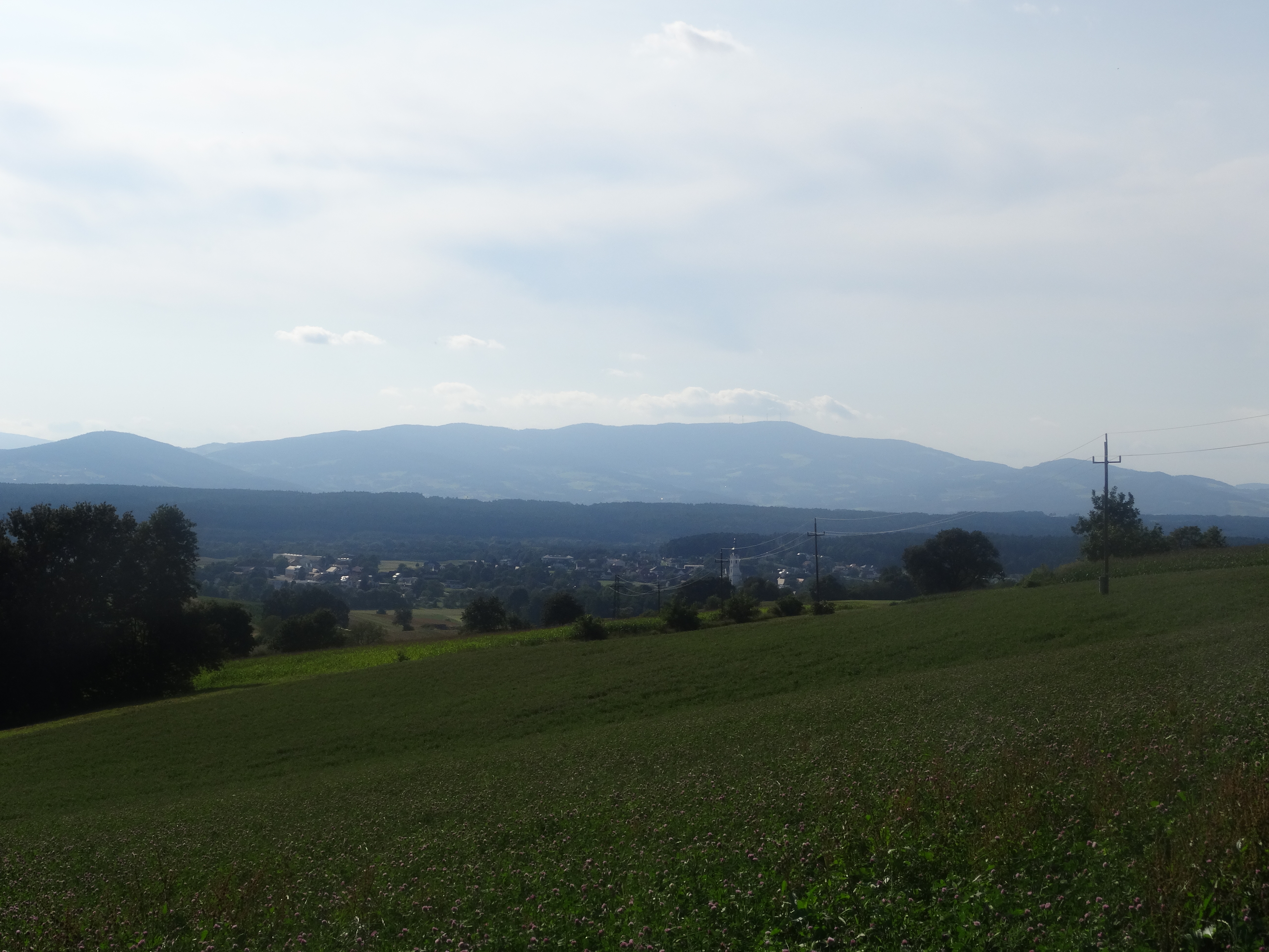 This is a picture from the Masenberg taken from middle Burgenland.